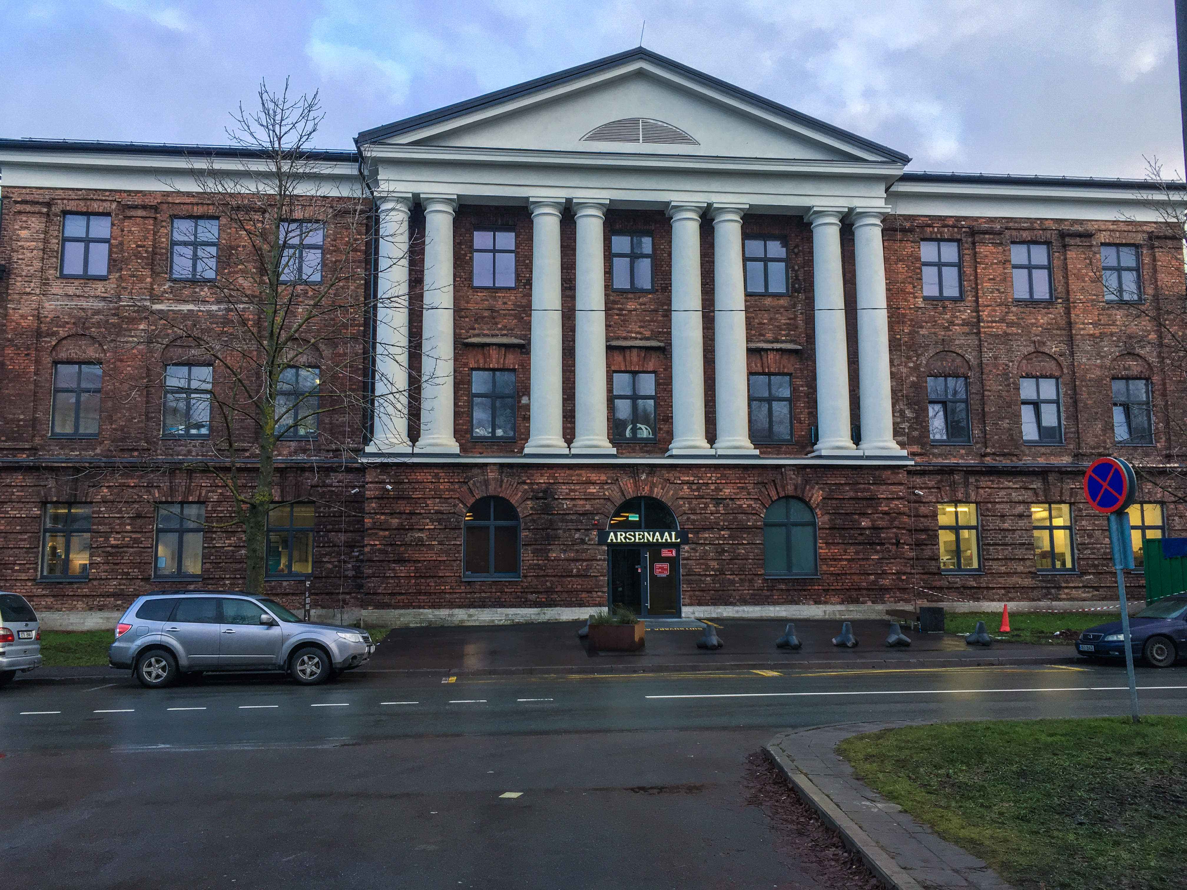 14 Erika Street, Tallinn, Estonia